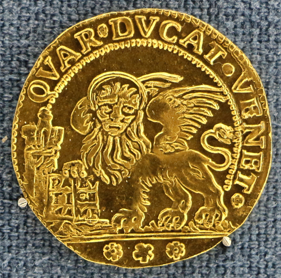 Coins in Palazzo Blu (Pisa)